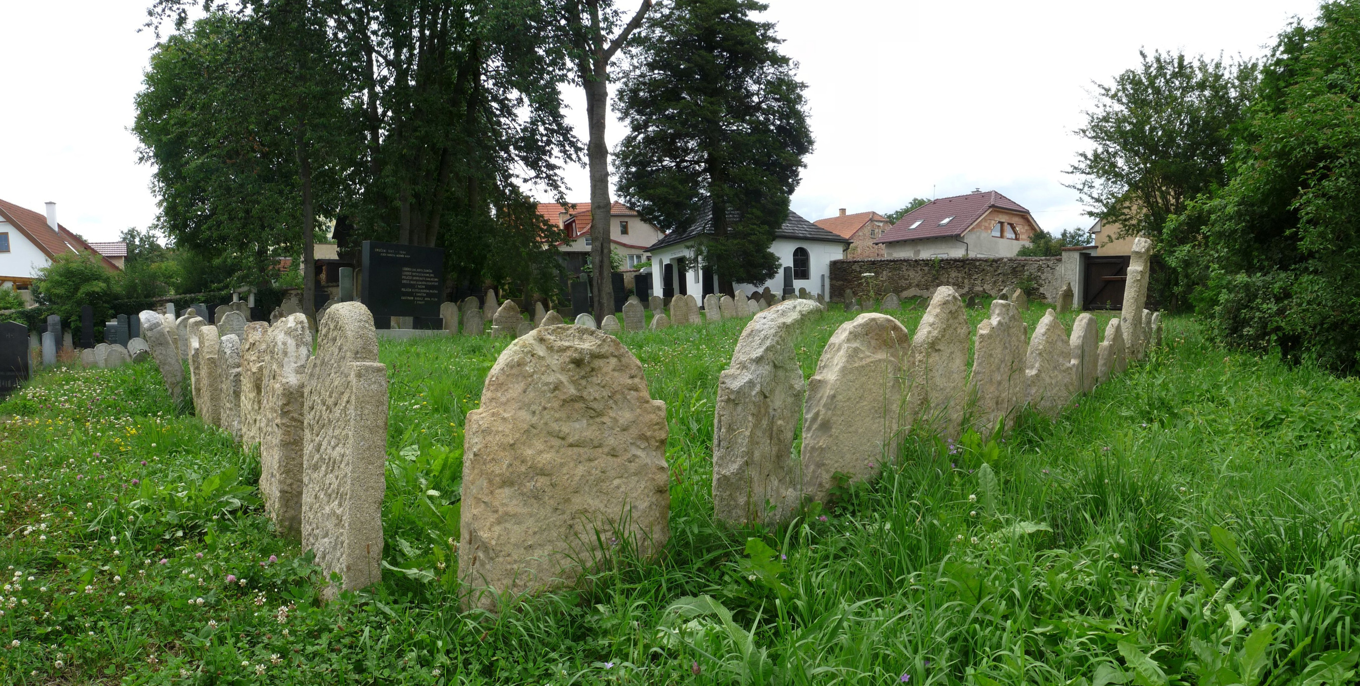 Jewish cemetery in the town of Pacov, Pelhřimov District, Czech Republic.